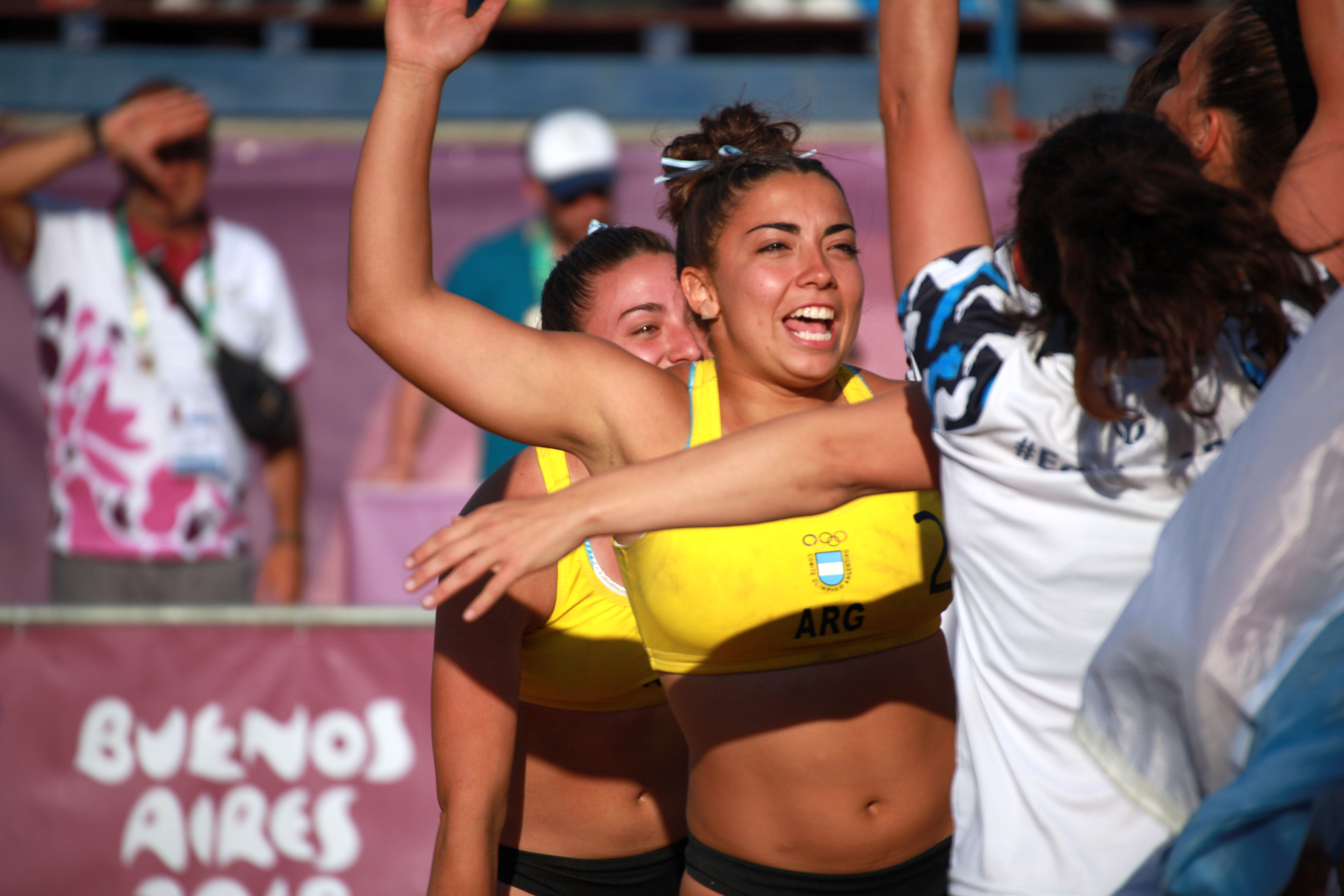 Beach handball at the 2018 Summer Youth Olympics in Buenos Aires at 13 October 2018 – Girls Gold Medal Match – Argentina-Croatia 2:0